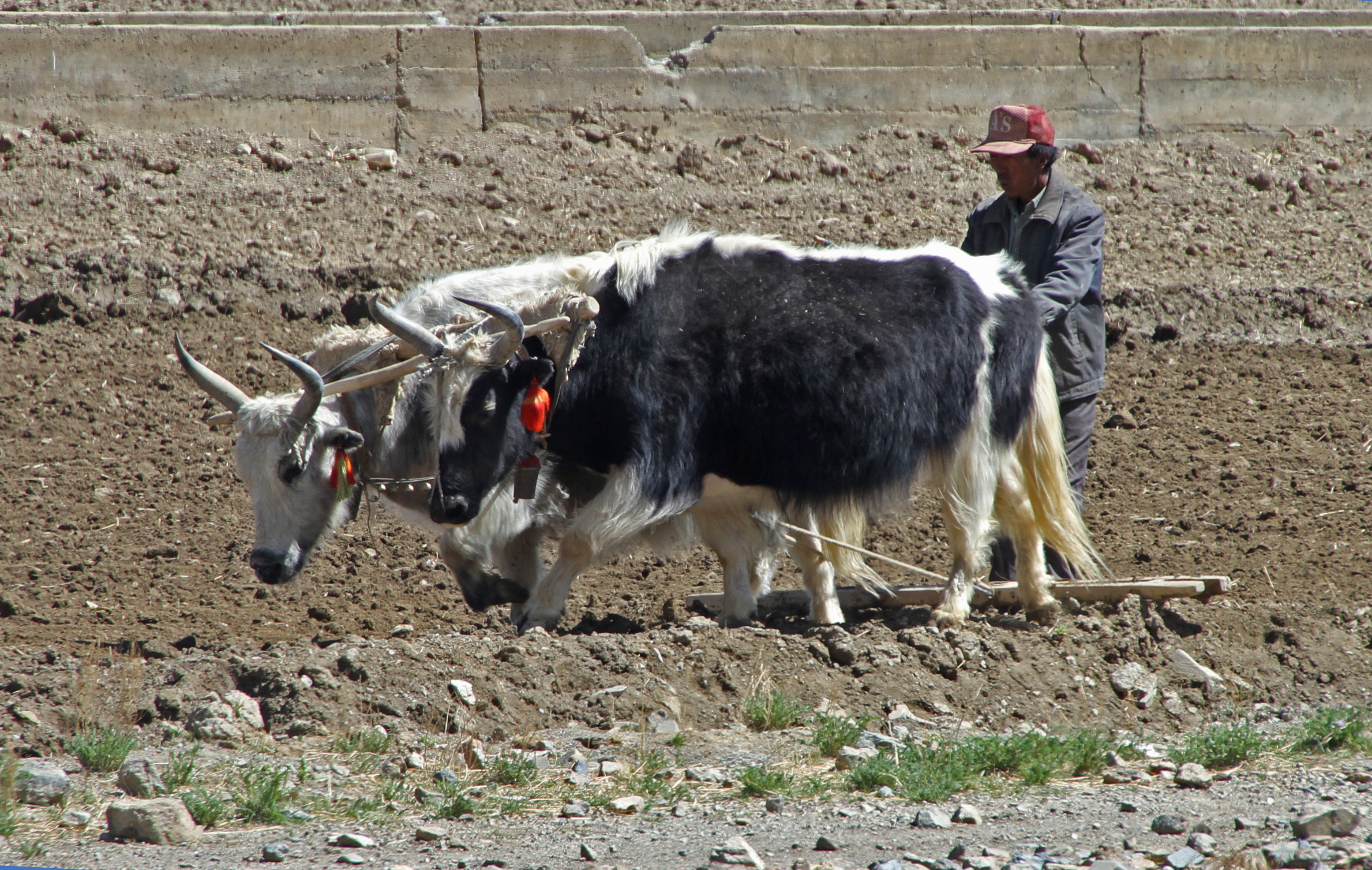 Agriculture in Xigazê prefecture in Tibet